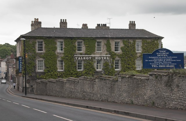 Talbot Hotel in Malton Prestigious hotel near the River Derwent.